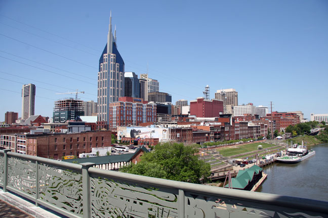 Nashville downtown taken from a pedestrian bridge over the Cumberland River